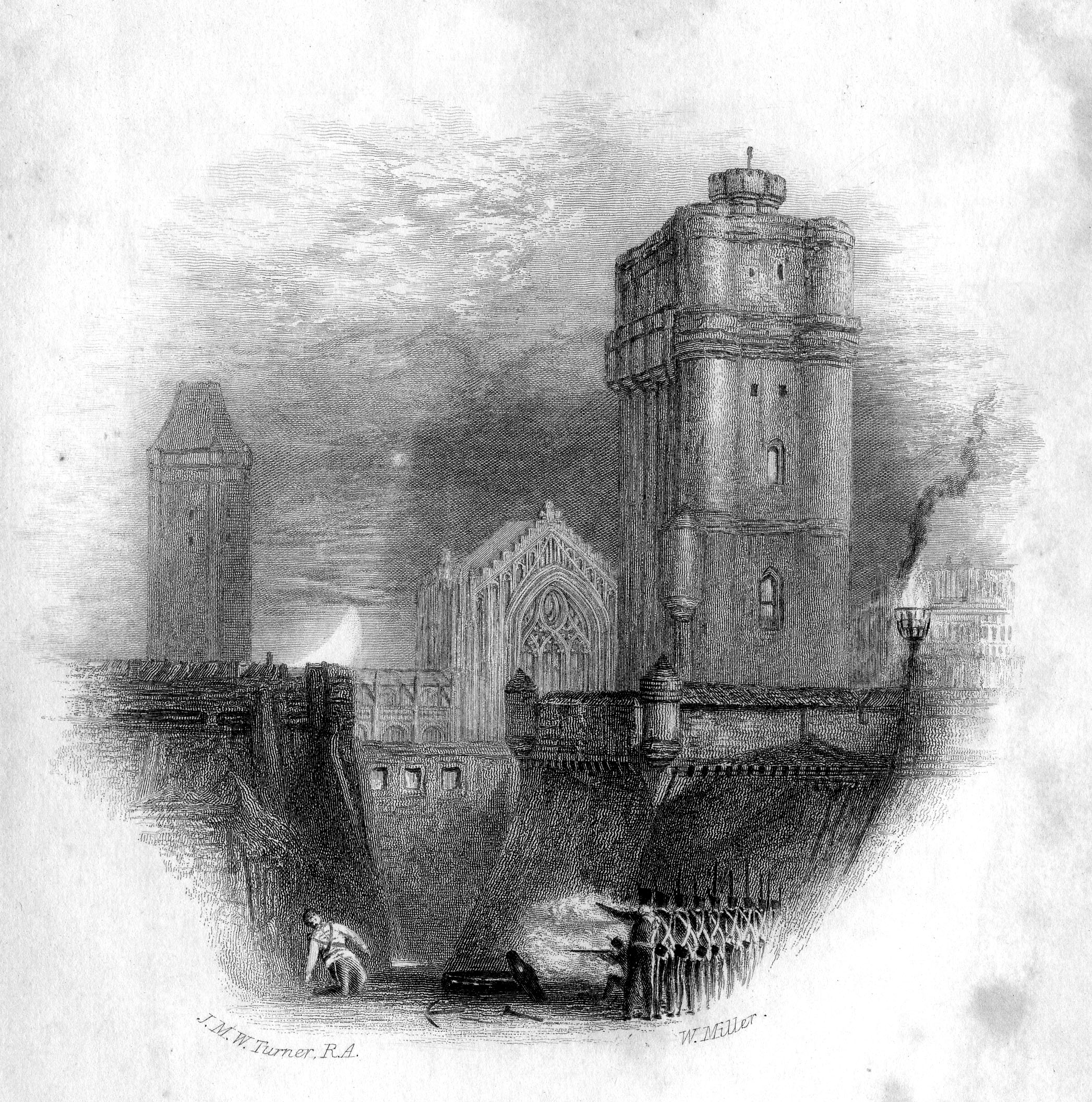 Vincennes (Rawlinson 531) engraving by William Miller after Turner, published in The Miscellaneous Prose Works of Sir Walter Scott, Bart. Embellished with Portraits, Frontispieces, Vignette Titles and Maps. The Designs of the Landscapes from Real Scenes by J.M.W. Turner, R.A.. Edinburgh: Robert Cadell, Edinburgh; Whitaker, Arnot, and Company, London; John Cumming, Dublin 1834 - 1836 The execution of Louis Antoine de Bourbon-Condé, Duke d'Enghien in 1804.